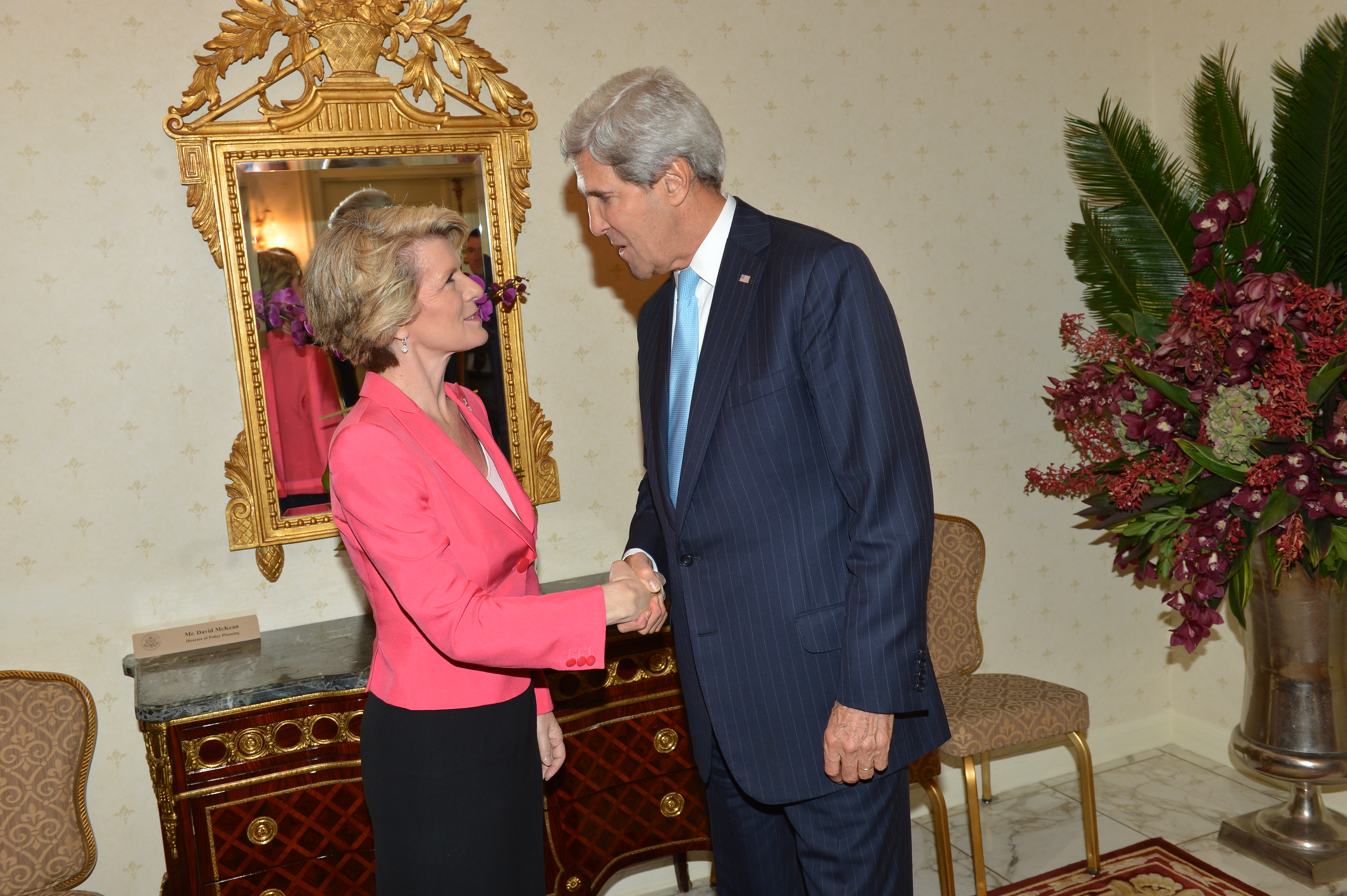 U.S. Secretary of State John Kerry meets with Australian Foreign Minister Julie Bishop in New York City on September 27, 2013.